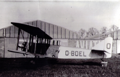 Stampe en Vertongen RSV.32, registered in the Belgian Civil Registry on 22 May 1923, deregistered 1946. Operated by the Antwerp Aviation School of Jean Stampe.